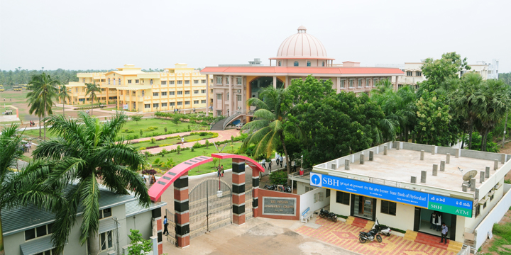 Sri Vasavi College Campus